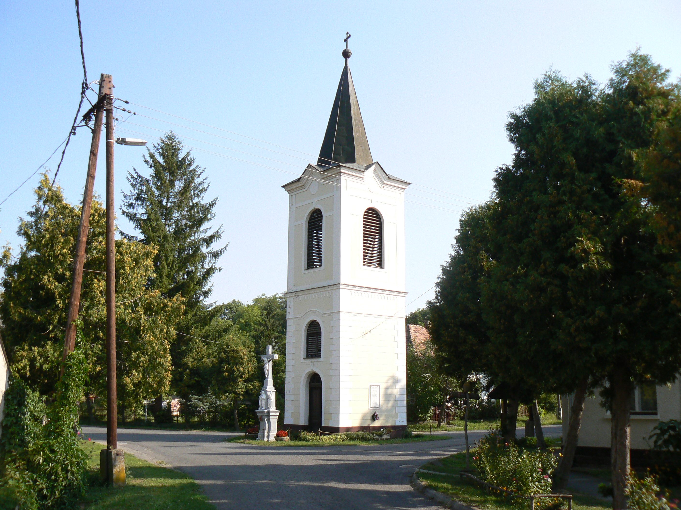 Old bell tower in Sénye, Hungary